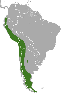 Culpeo range